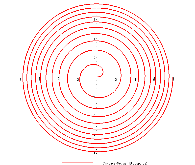 Fermat's spiral turns 10